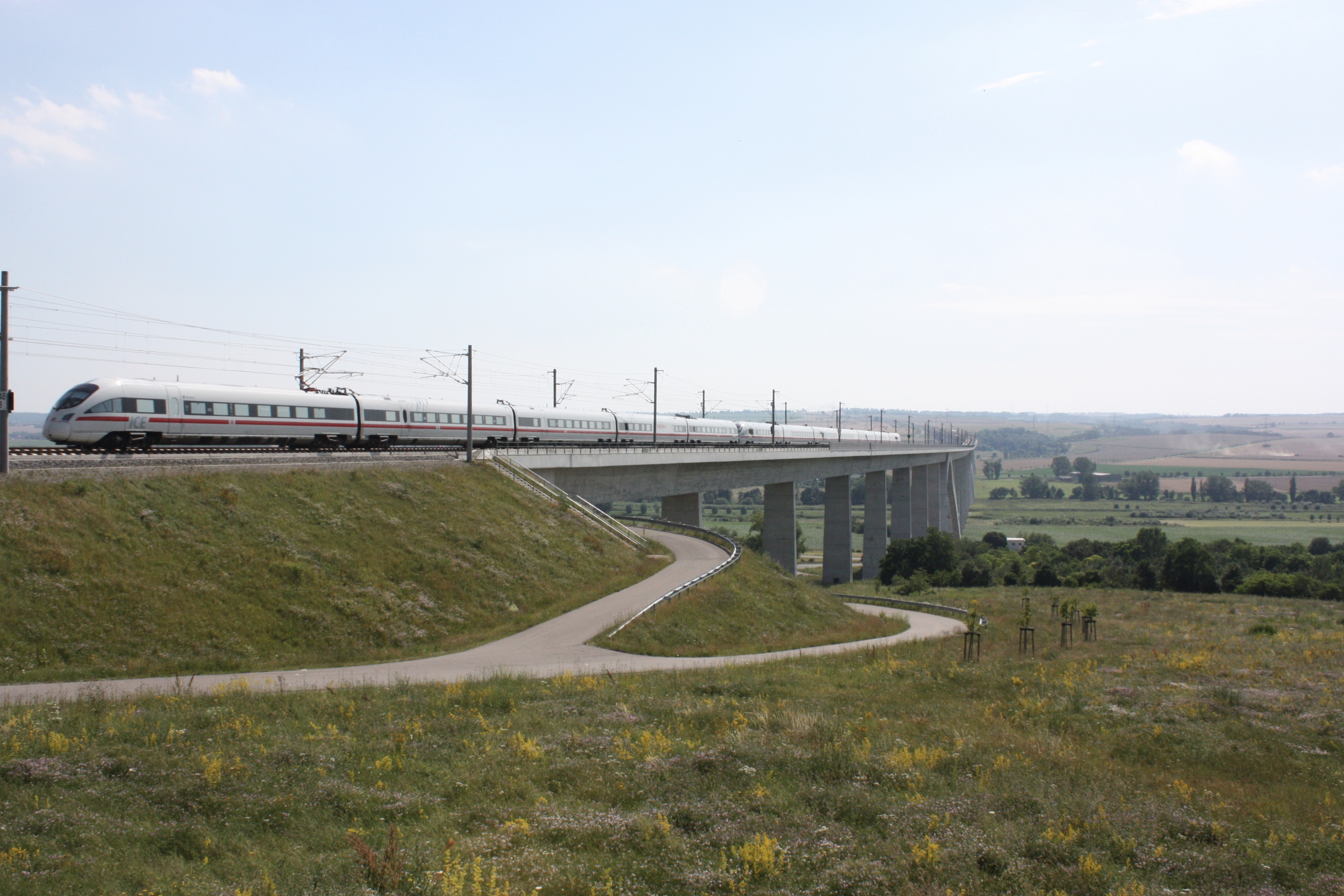 Unstruttalbrücke mit überfahrendem ICE T vom westlichen Osterbergtunnelportal